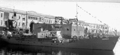 The United States Fish and Wildlife Service fisheries research ship RV Albatross III